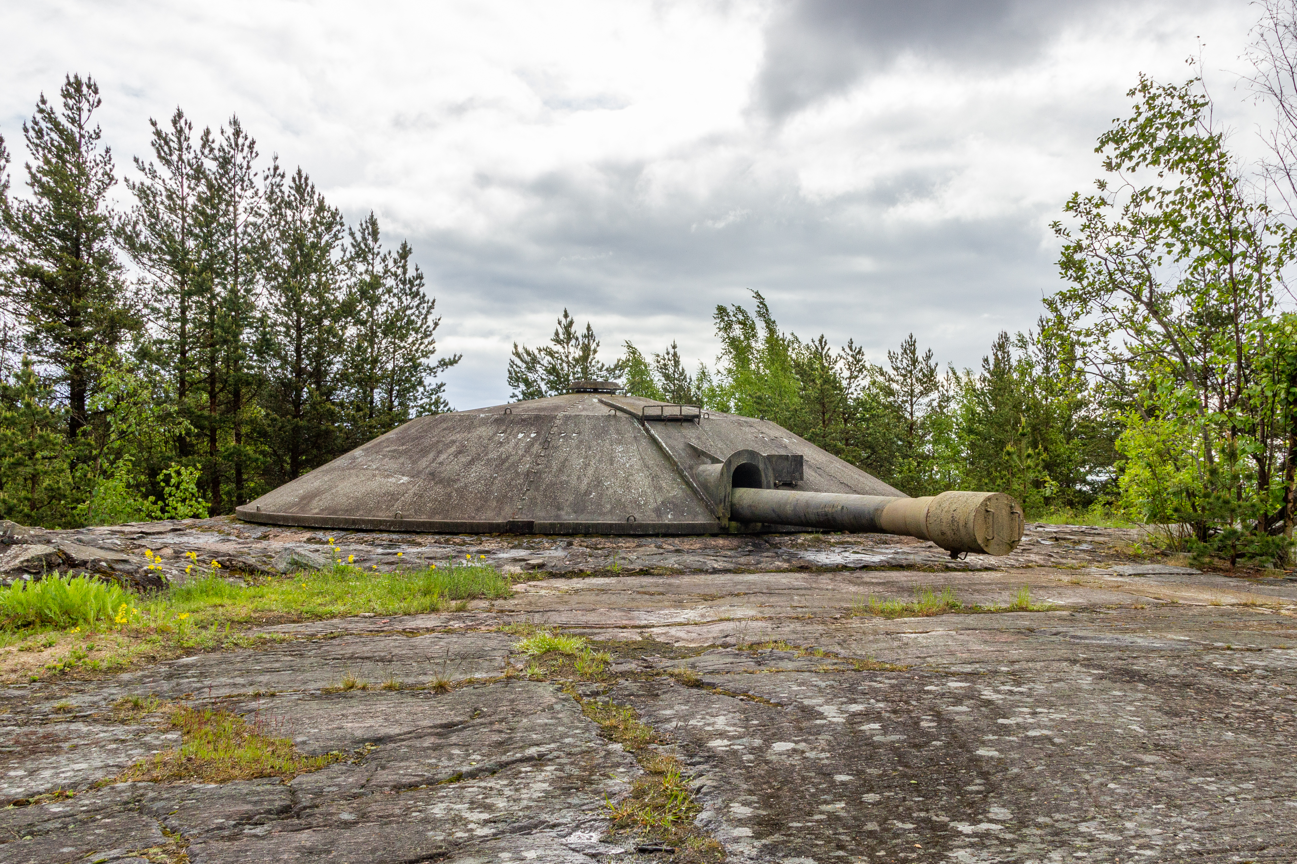 A decommissioned 152/50 T gun turret in Eteläkärki in Isosaari, Helsinki, Finland. Unlike the other 152/50 T turrets on the island, this one has been constructed straight into the bedrock.